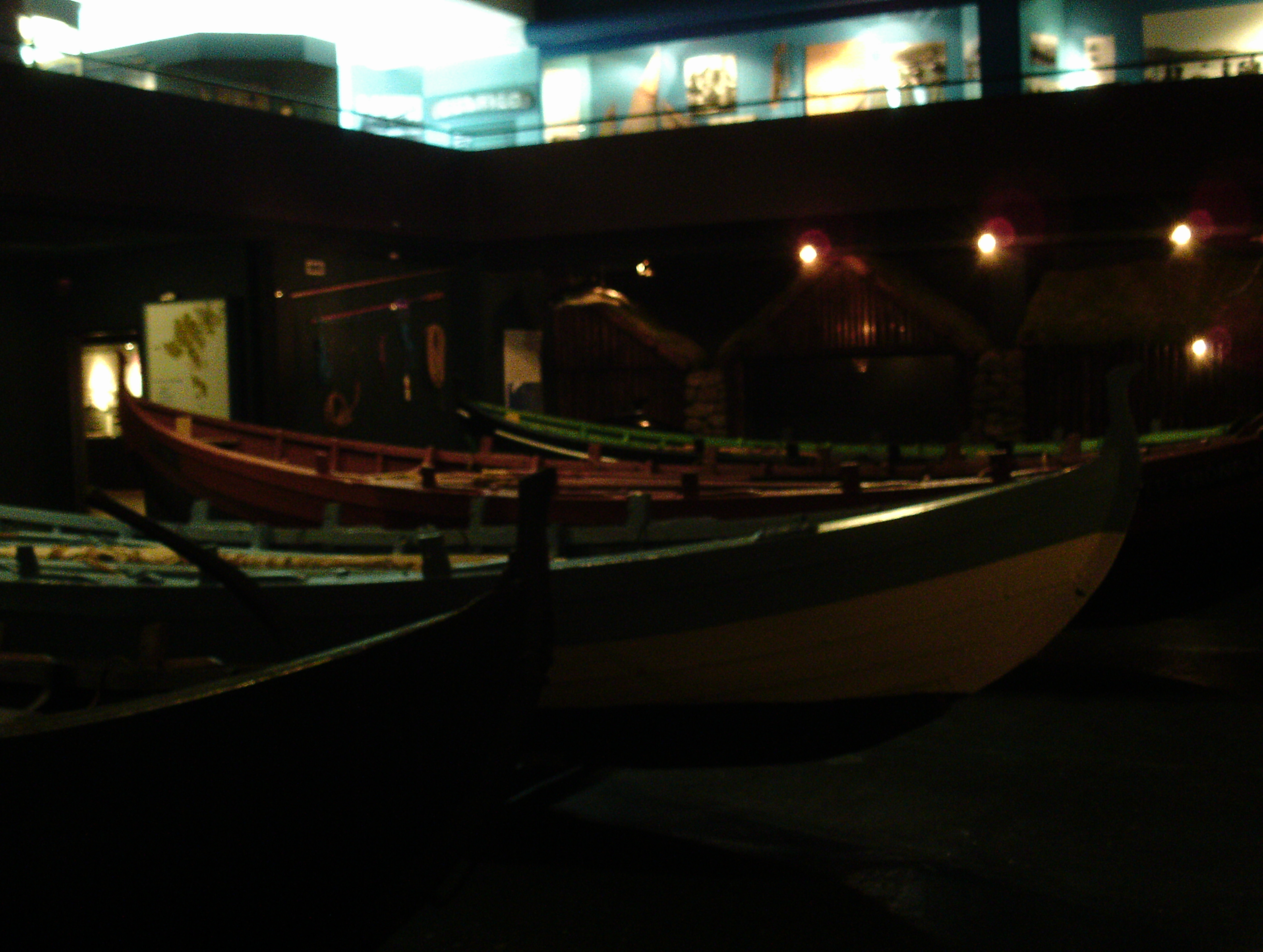 Faroese boats at the National Museum in Tórshavn